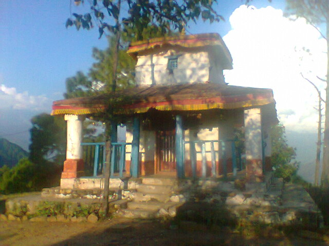 Bhairav ??temple of Vilaspur